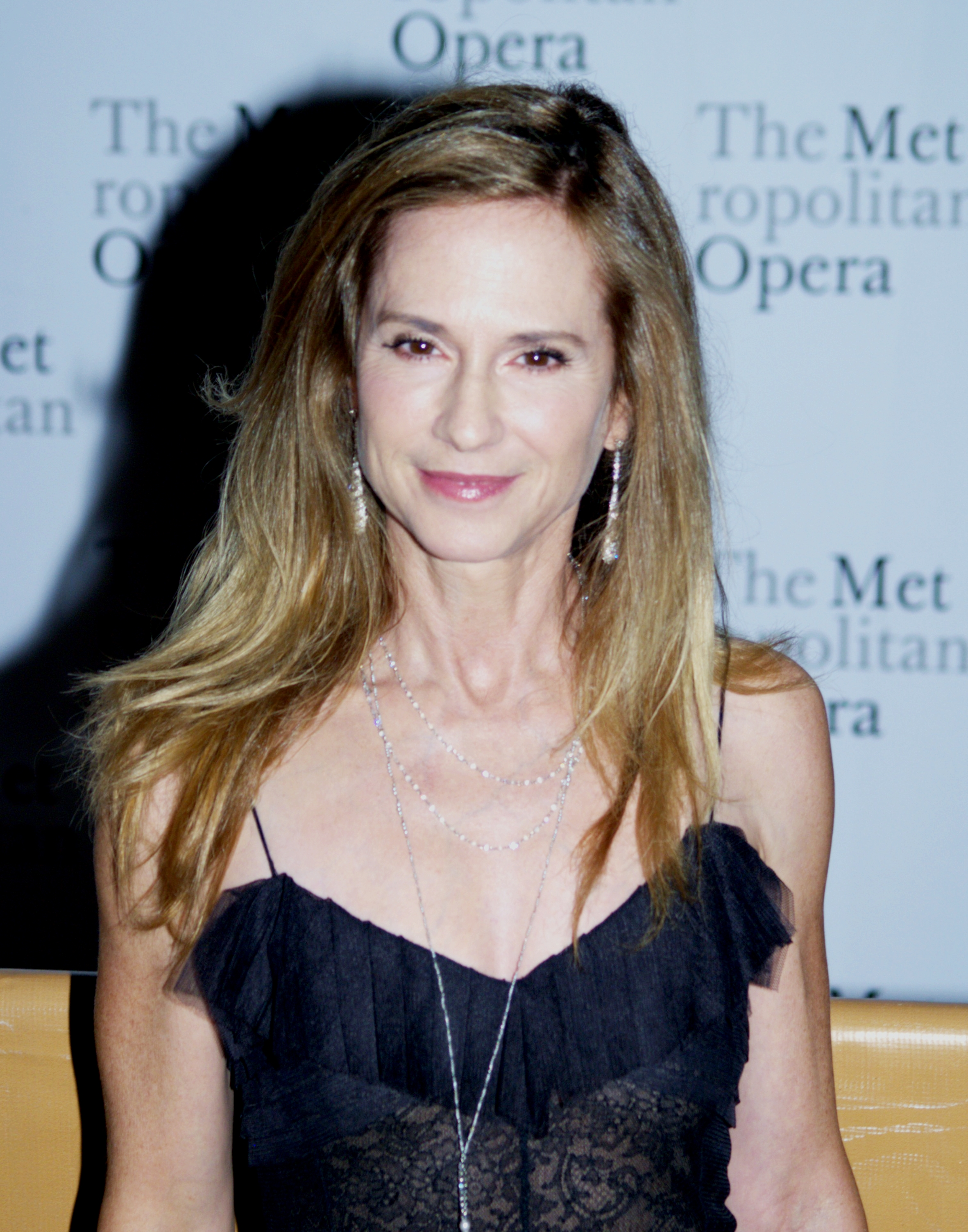 Holly Hunter at Metropolitan Opera's 2010-11 Season Opening Night - "Das Rheingold"